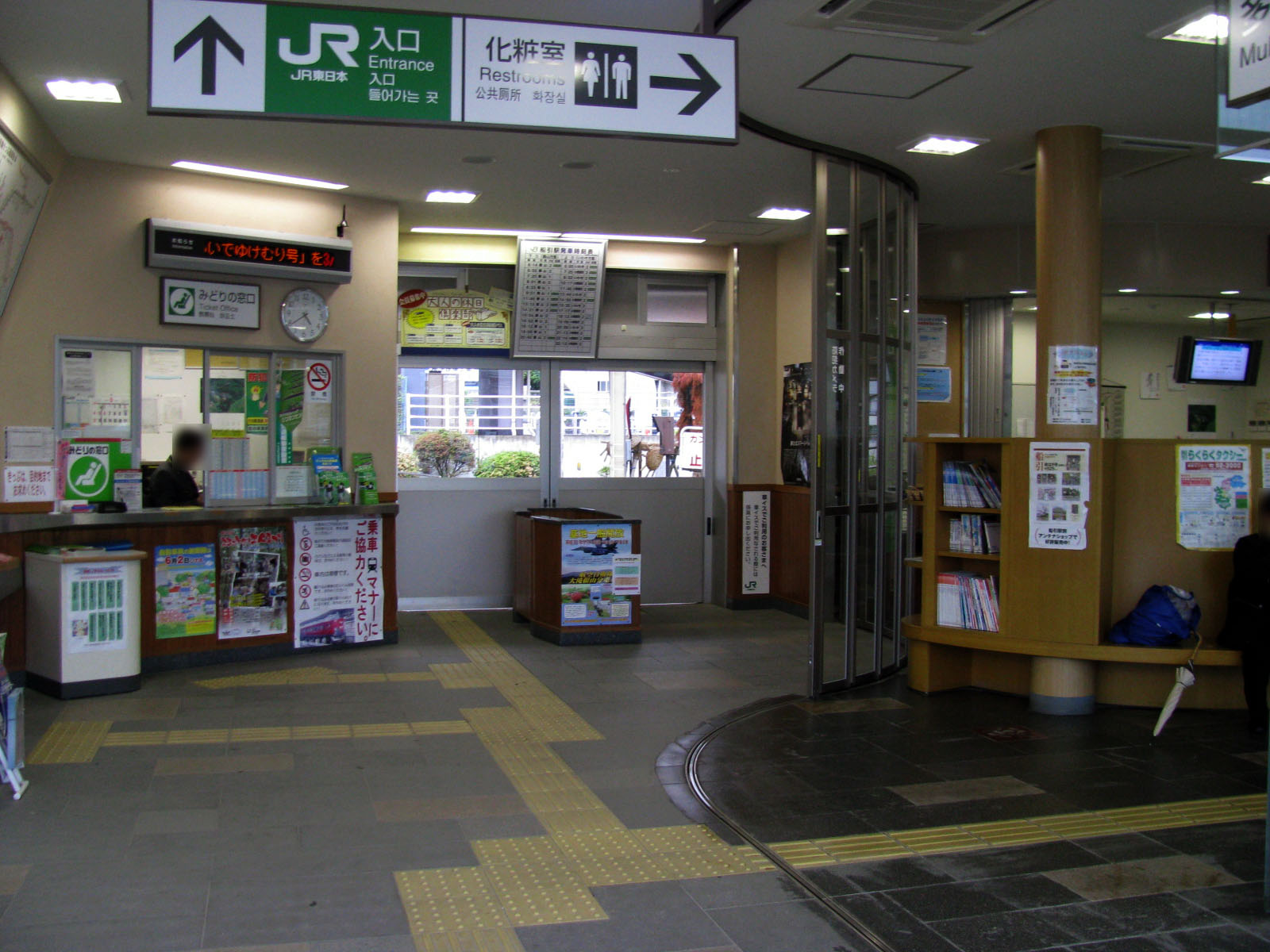 Funehiki Station - in Tamura-city, Fukusima, Japan.